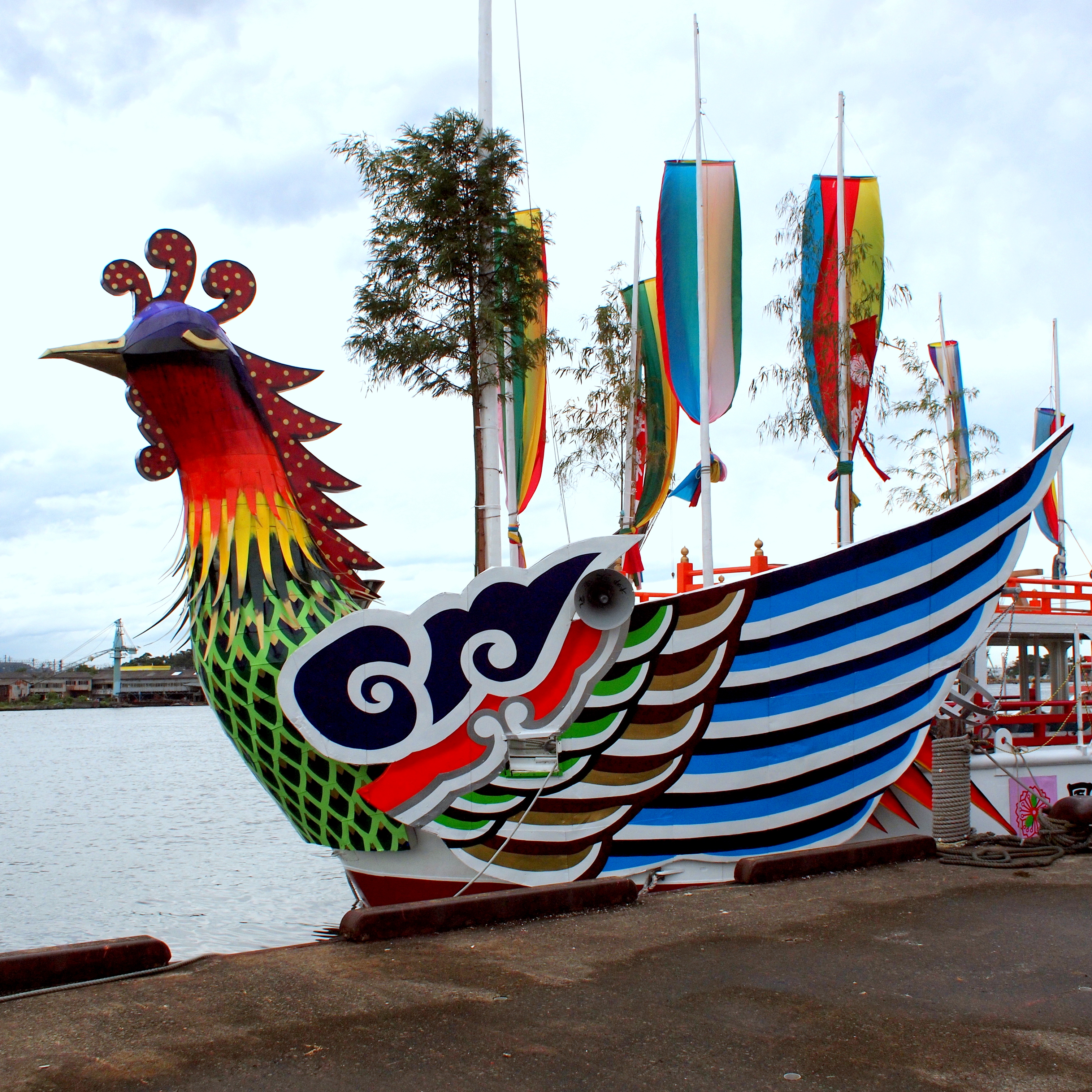 Hōō Maru for the Shiogama Minato Festival.